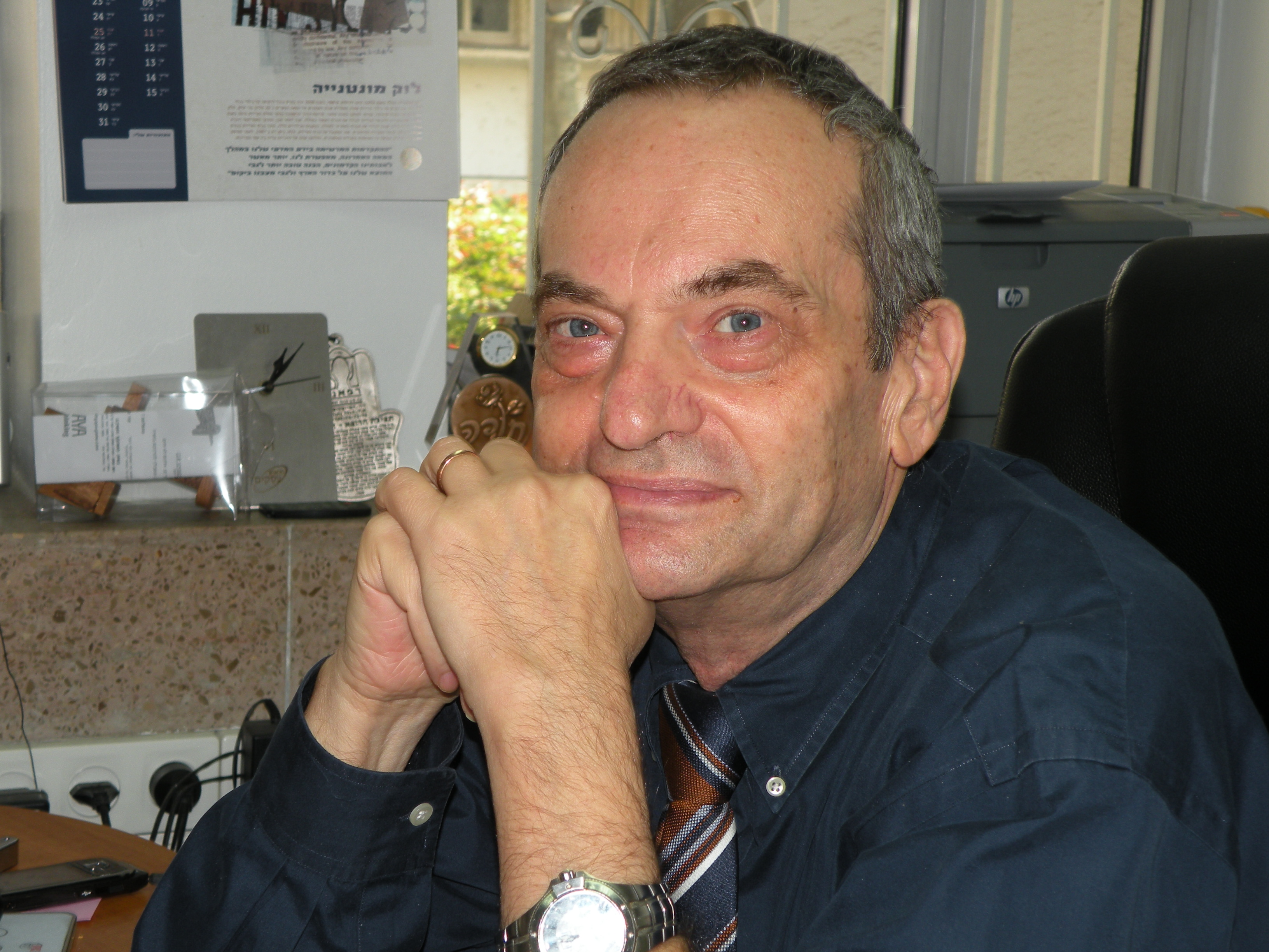 Dr. Yitzhak berlovitz m.d, m.h.a Director of the Edith Wolfson Medical Center